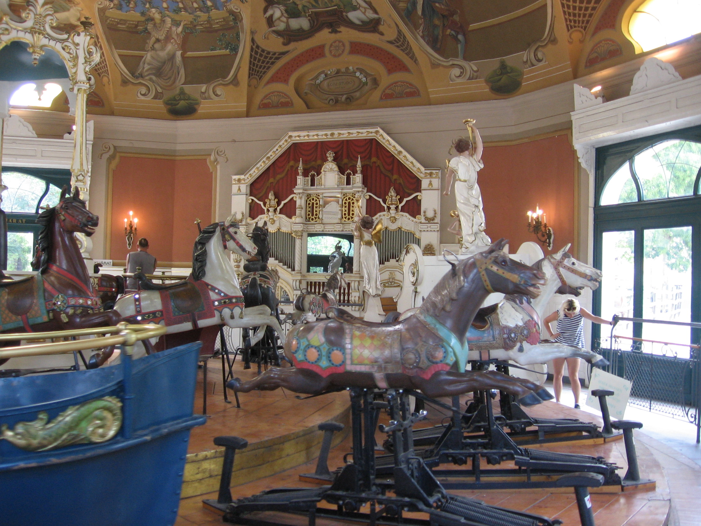 Carousel from 1906 in Budapest Holnemvolt park